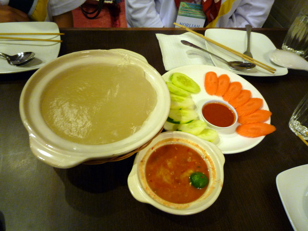 Ambuyat, the local delicacy of Brunei, as well in Sarawak, Labuan and Sabah.